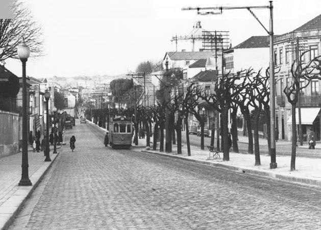 Old picture of Avenida da República in Vila Nova de Gaia, Portugal